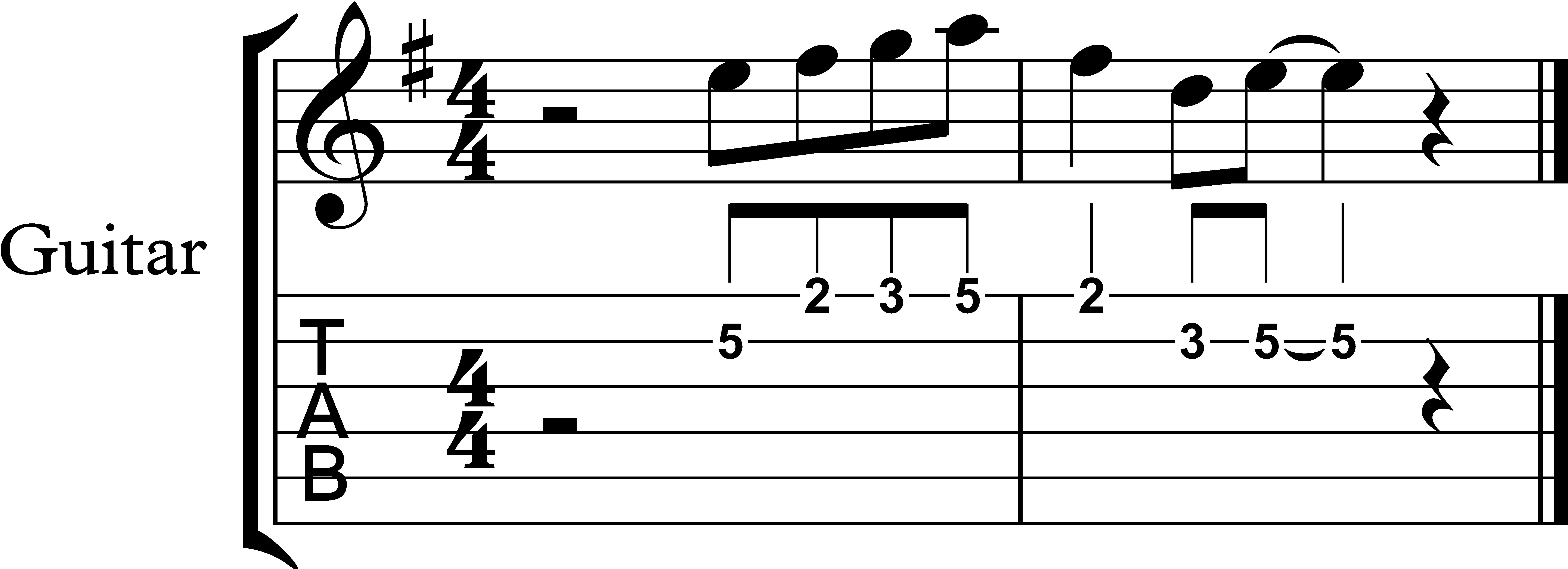 The Lick in E Minor on tabs